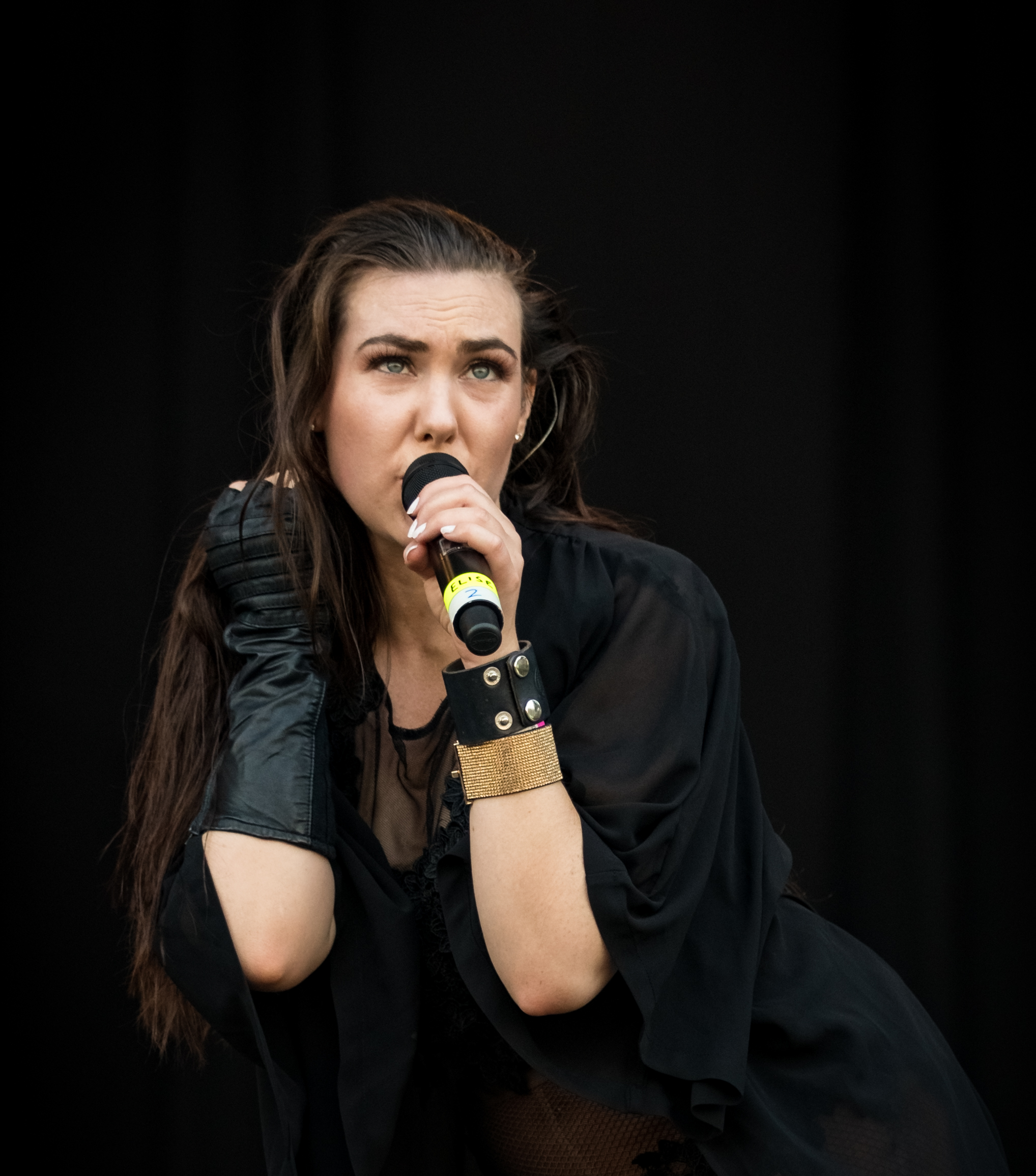 Amaranthe - Wacken Open Air 2018